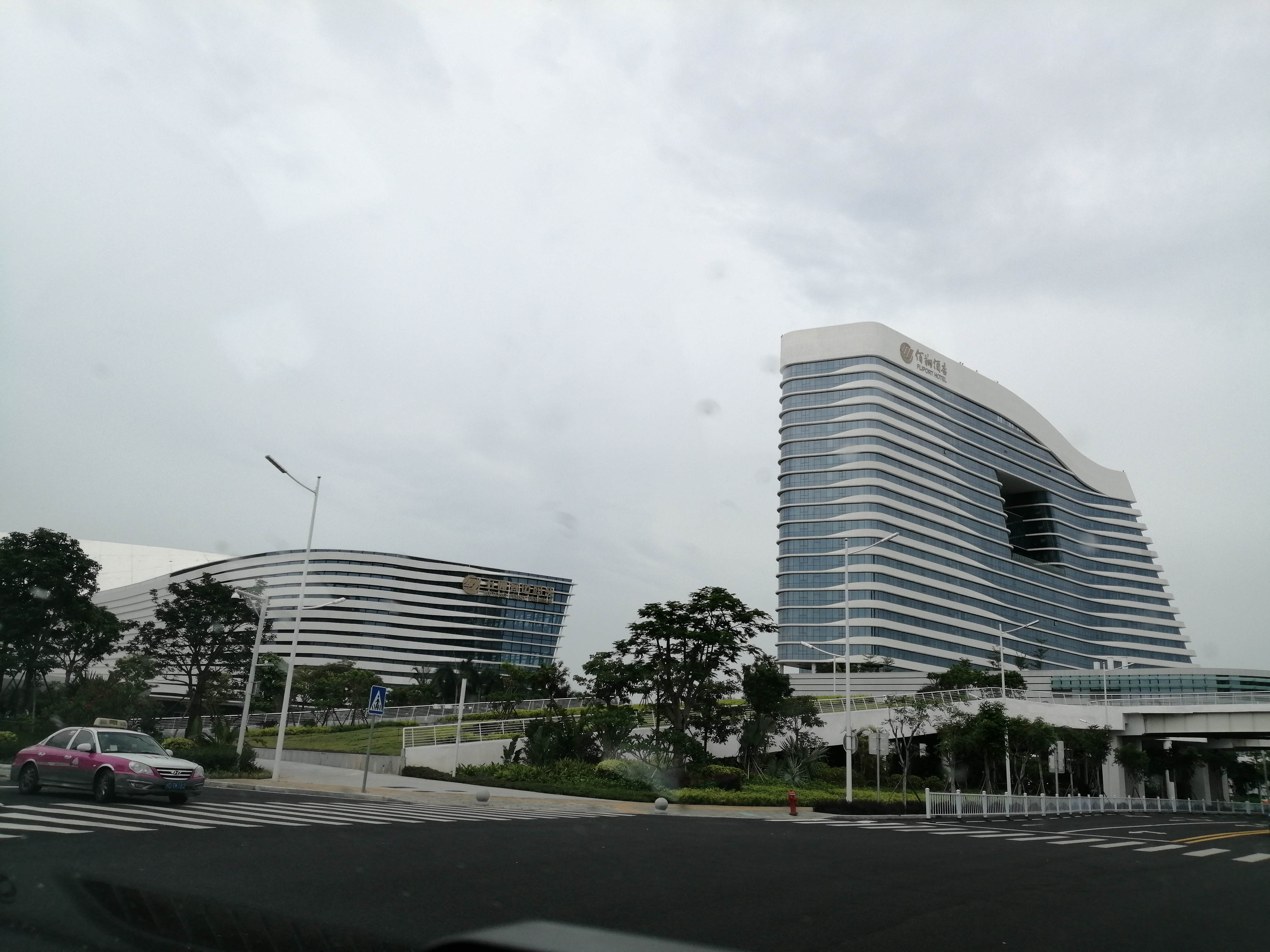 Phase 3 of Wutong Ferry Terminal, located in Huli District, Xiamen. The phase 3 is started to operation in June 2019. 中文（中国大陆）: 五通码头三期候船楼，于2019年6月启用